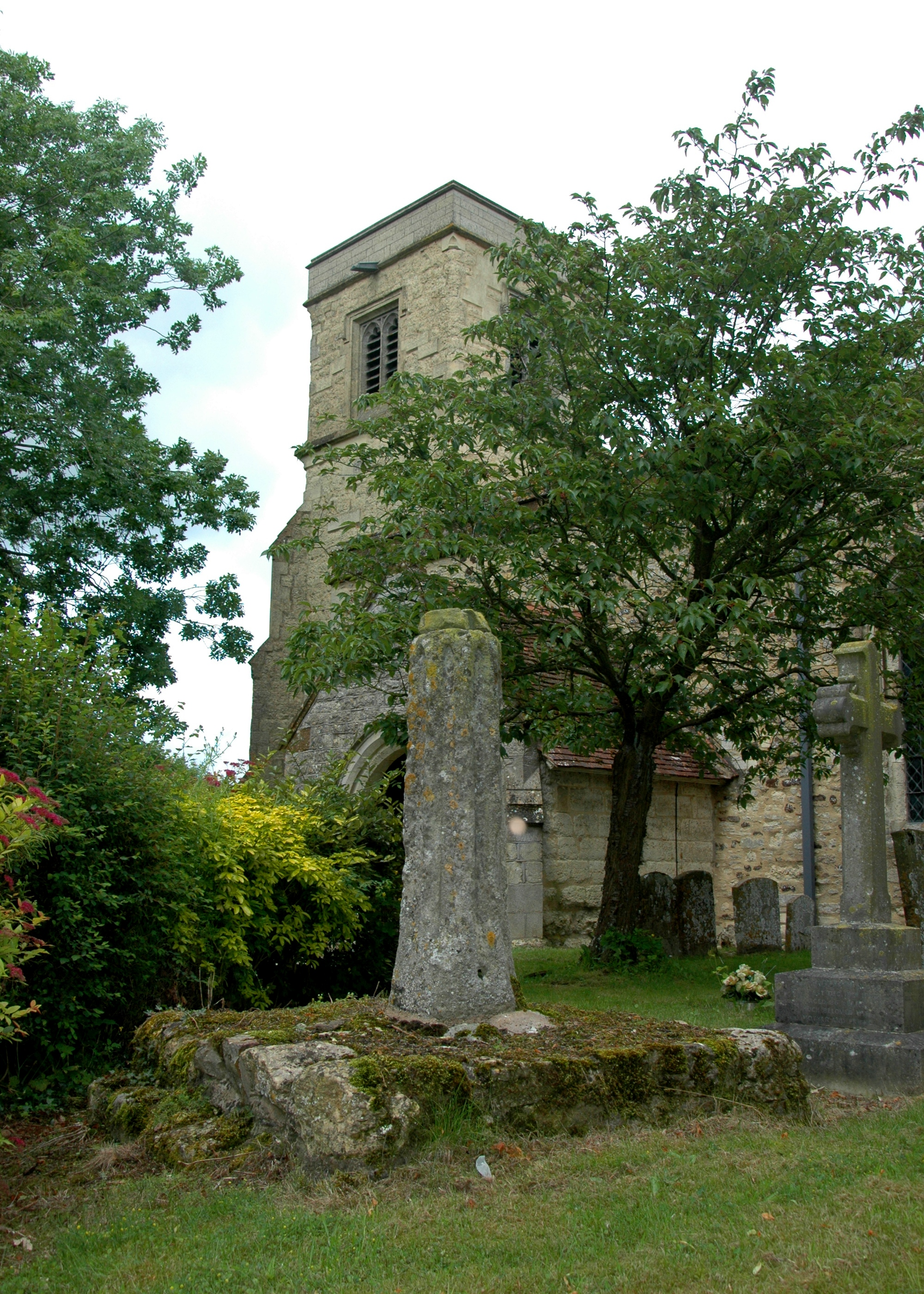 Holy Trinity parish church, Drayton Parslow, Buckinghamshire: base and broken shaft of churchyard cross, with the 15th-century west tower of the church in the background